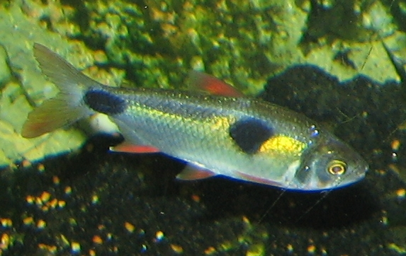 Bucktooth Tetra (Exodon paradoxus) at Lousiville Zoo